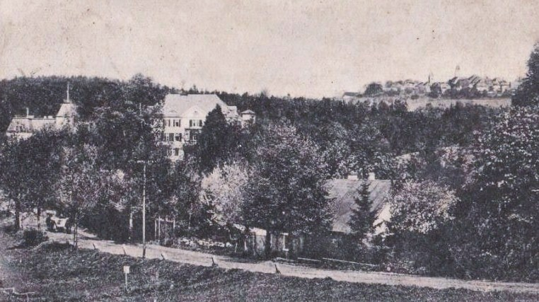 The Sanatorium in Janowice, Miedzianka town in the background.